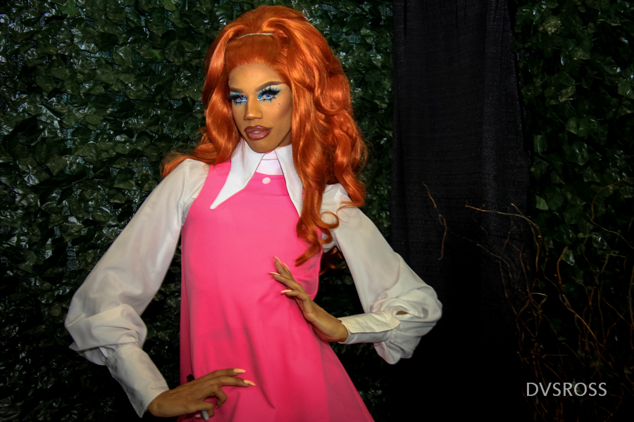 Naomi Smalls at RuPaul's DragCon LA 2018